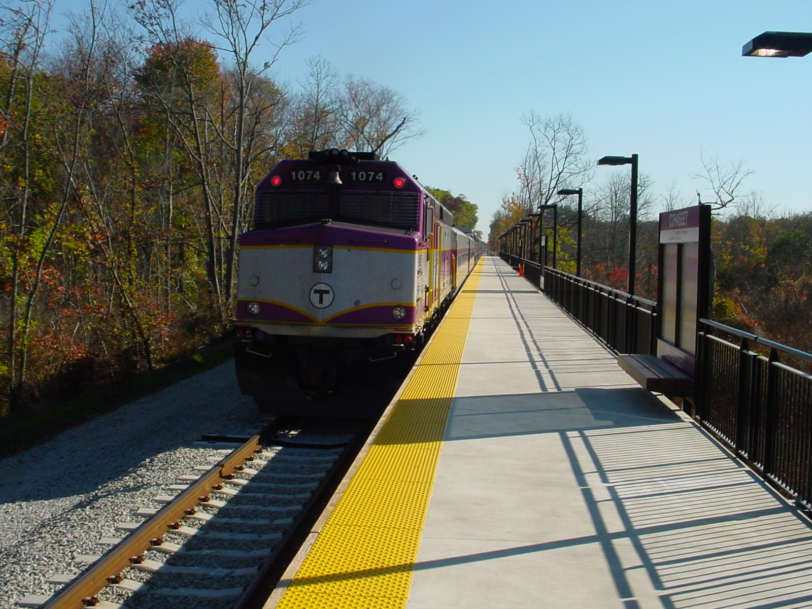 A commuter rail train at Cohasset station on the MBTA's Greenbush Line for a ceremonial opening on October 30, 2007, one day before the line opened